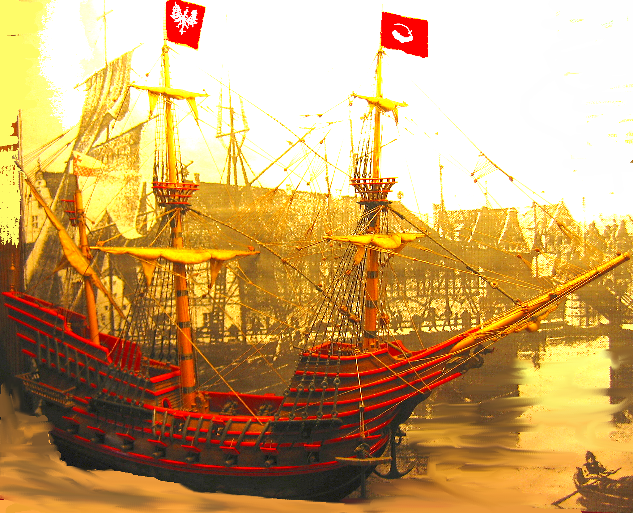 Polish galeon Smok